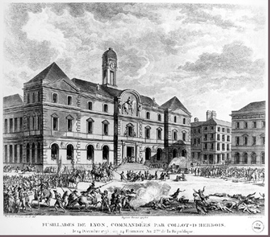 Fusillades at Lyon, Ordered by Collot–D’Herbois.jpg